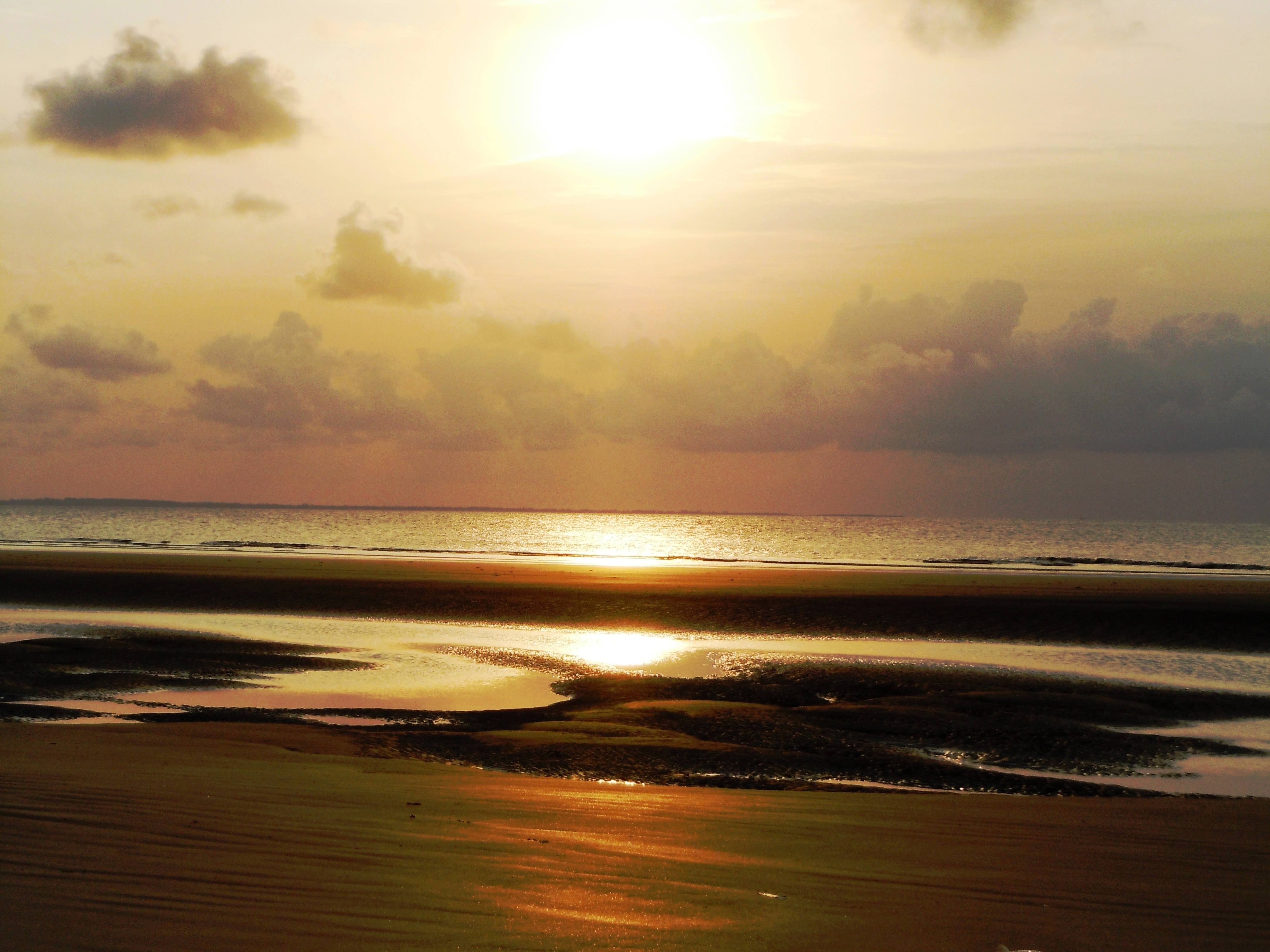 Kiran Beach (Henry's Island)